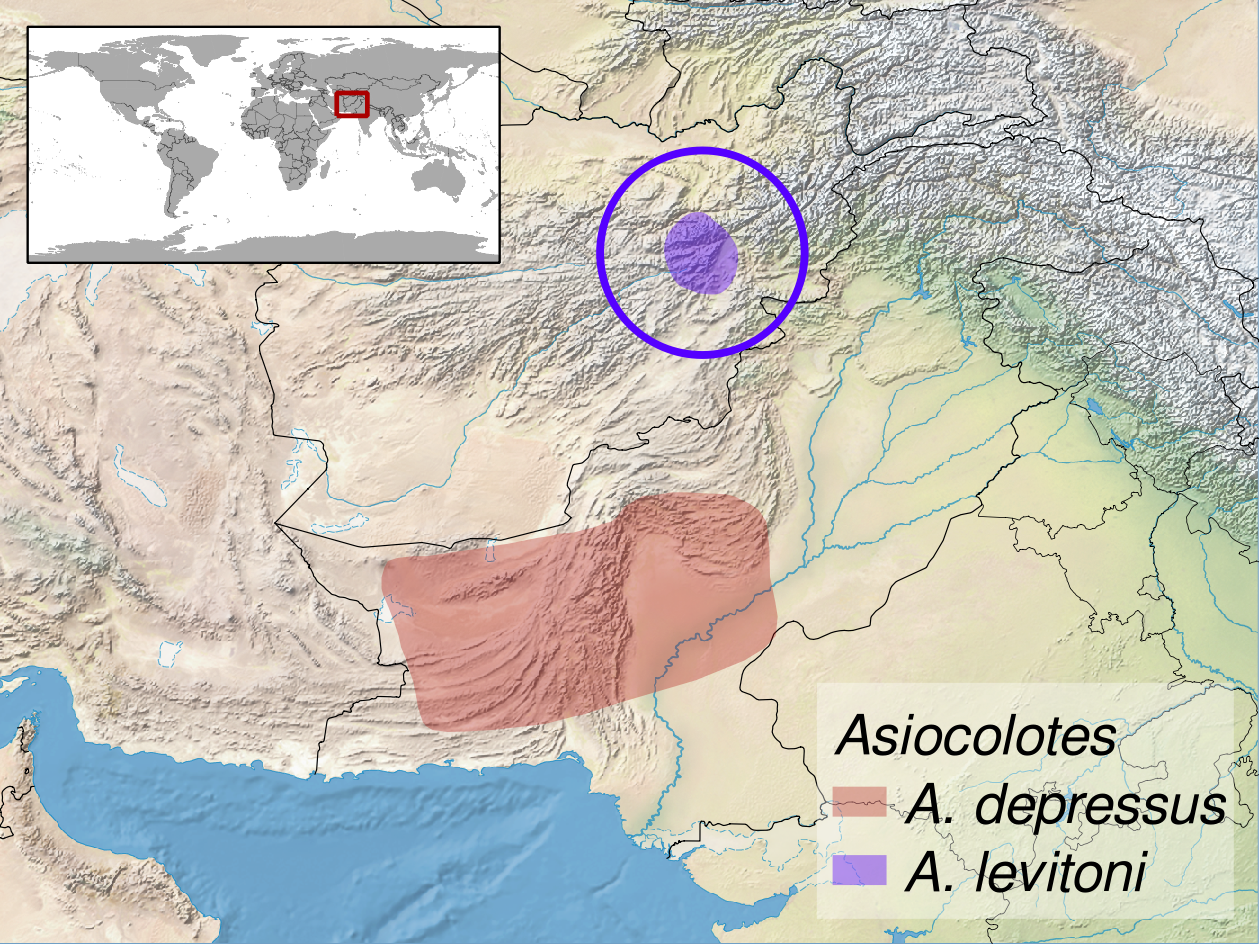 geographic distribution of the genus Asiocolotes included species: Asiocolotes depressus (Native: Pakistan) and Asiocolotes levitoni (Native: Afghanistan)